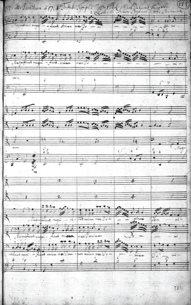 A page from the so-called Tenbury Manuscripts, currently housed at the Bodleian Library, Oxford. These manuscripts contain a number of liturgical compositions by Johann Pachelbel, and may have been created by Pachelbel himself, or his son and/or pupils. They are among the very few manuscripts that have been identified as possible Pachelbel autographs.